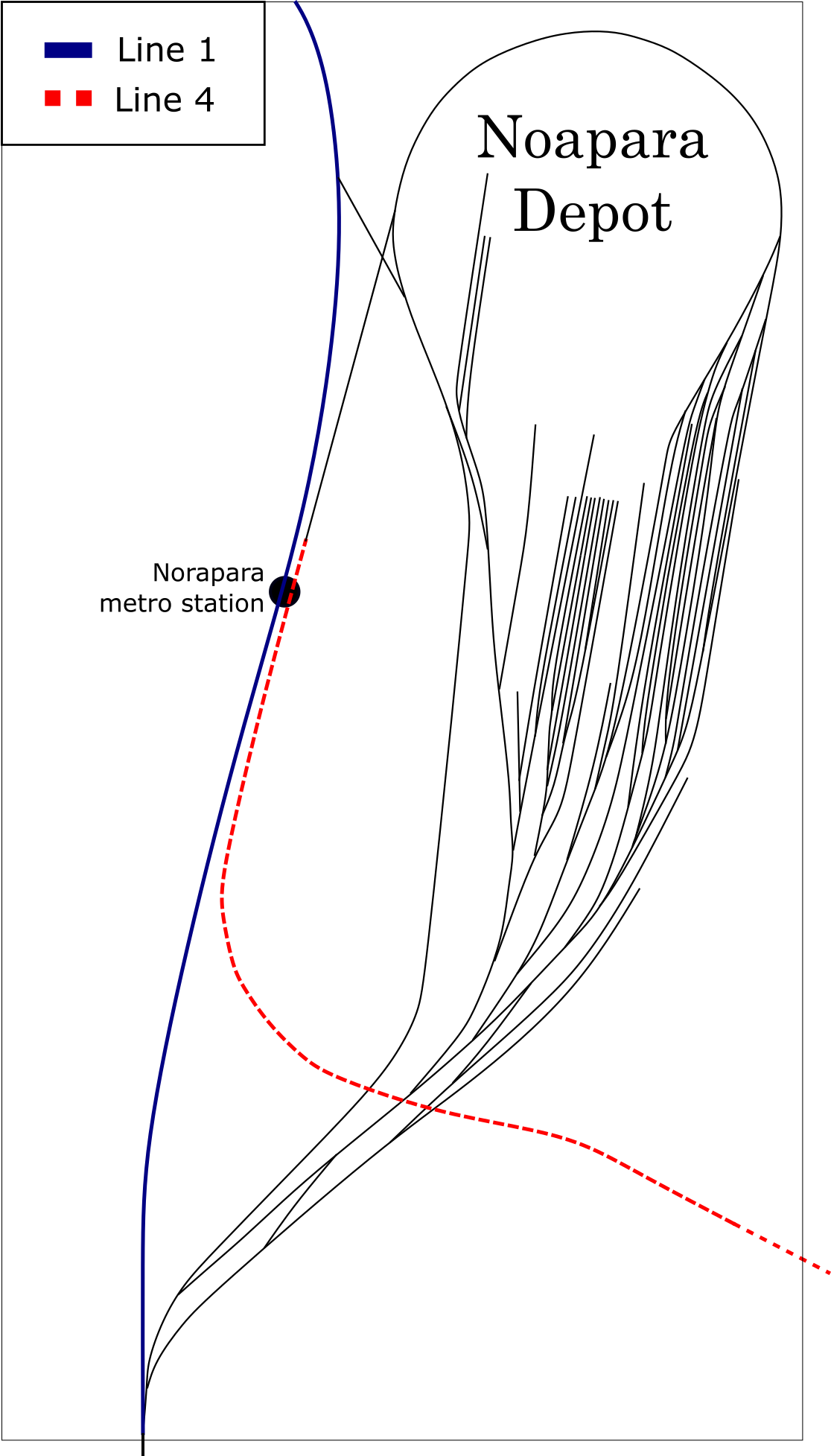 Layout map of noapara metro depot